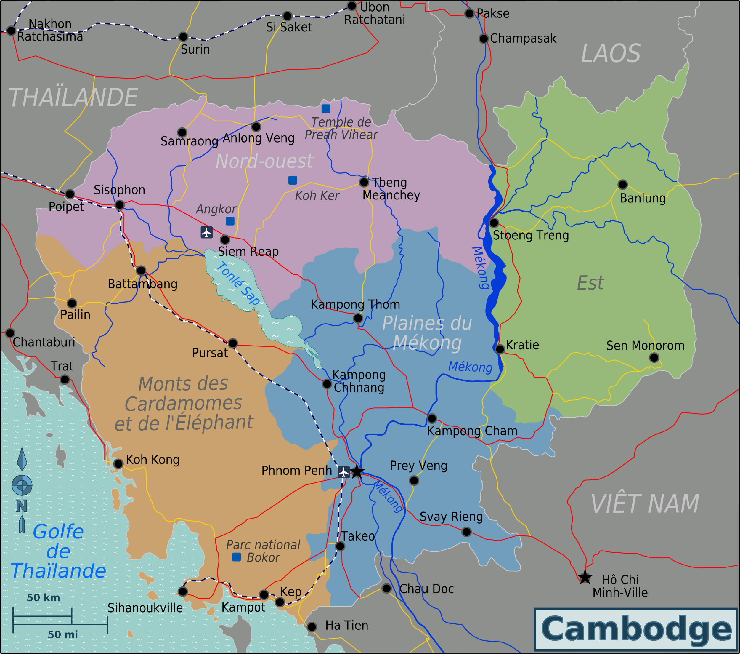 Map of Cambodia with regions colour coded (Wikivoyage regional scheme), French version